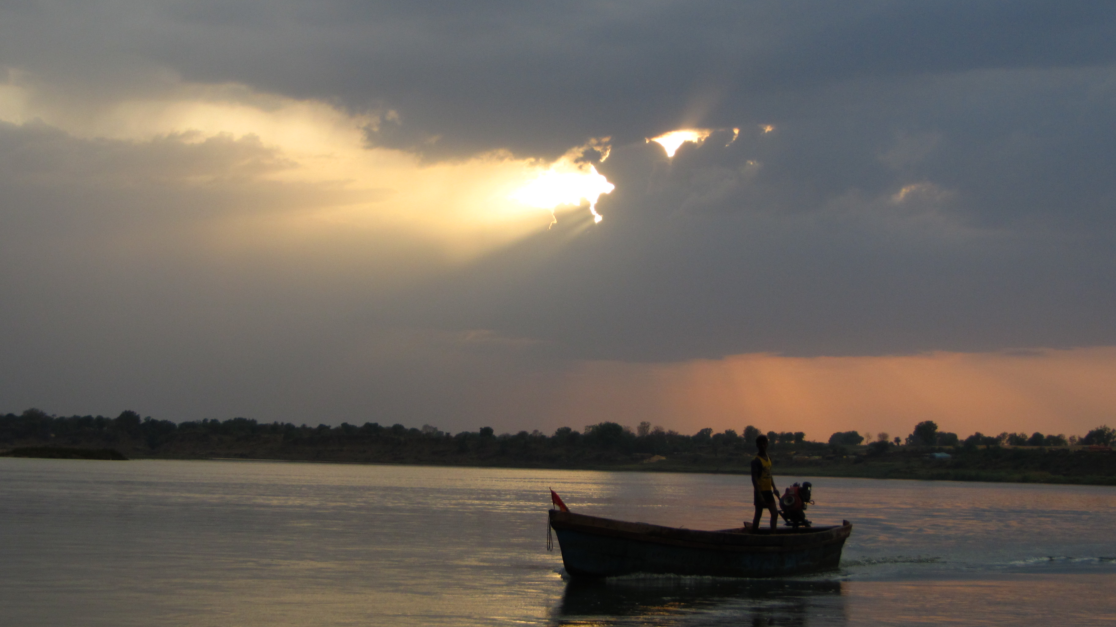 Sunset at Narmada River near Nasrullagunj.